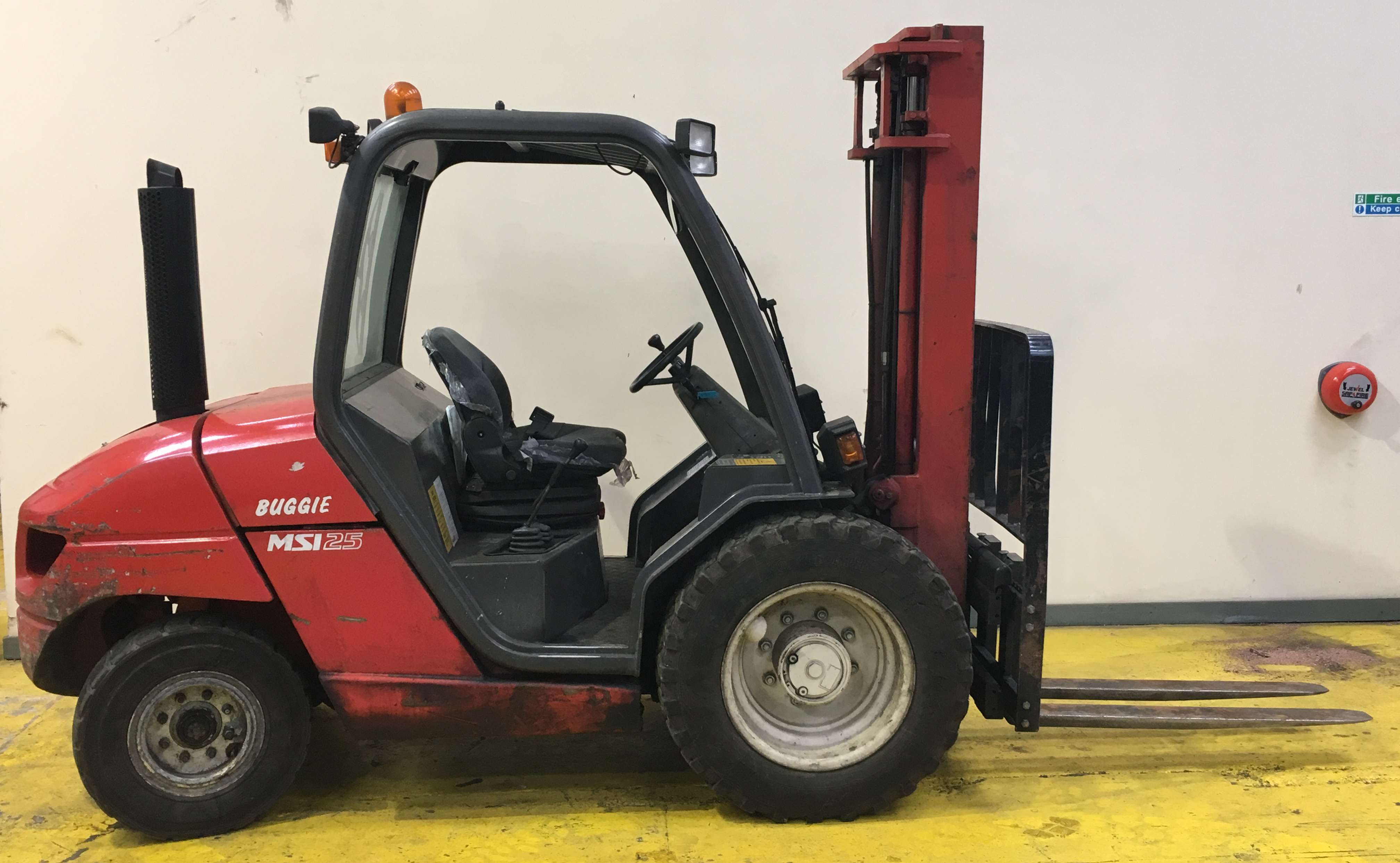 Manitou MSI25 "Buggie" Rough Terrain Forklift able to lift 2500kg